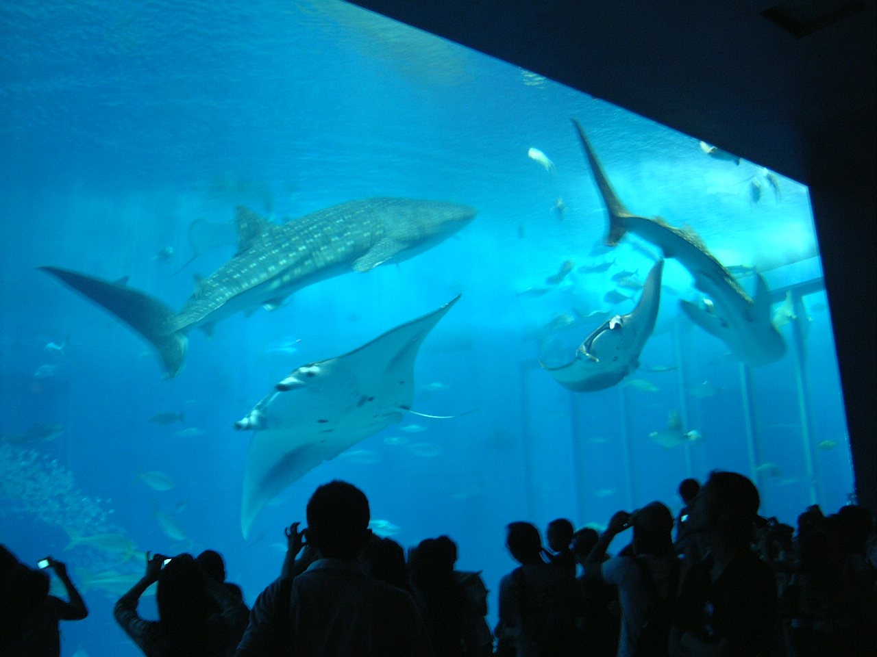 Rhincodon typus and Manta alfredi